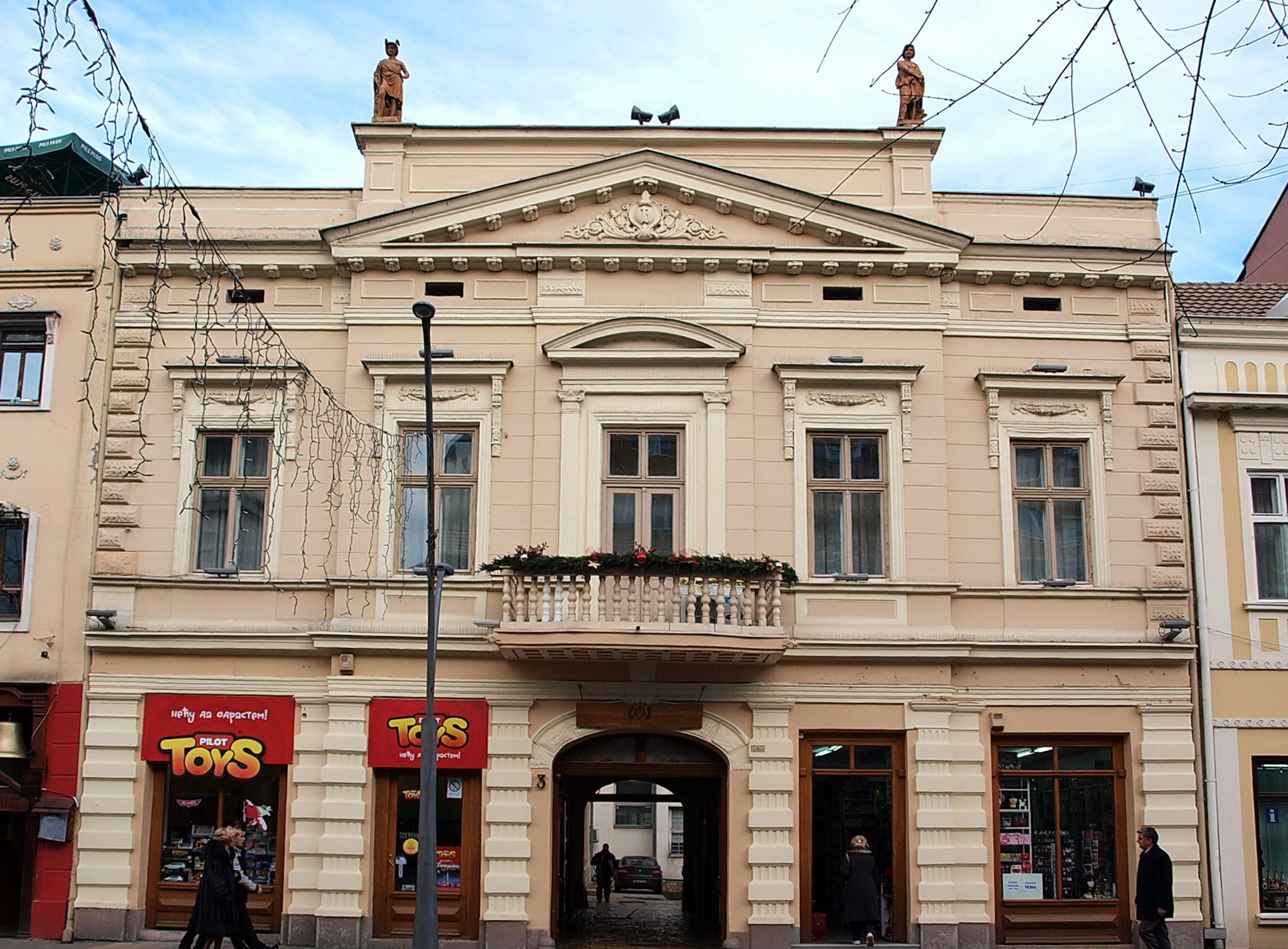 General look of house of Đorđe Arambašić in Šabac